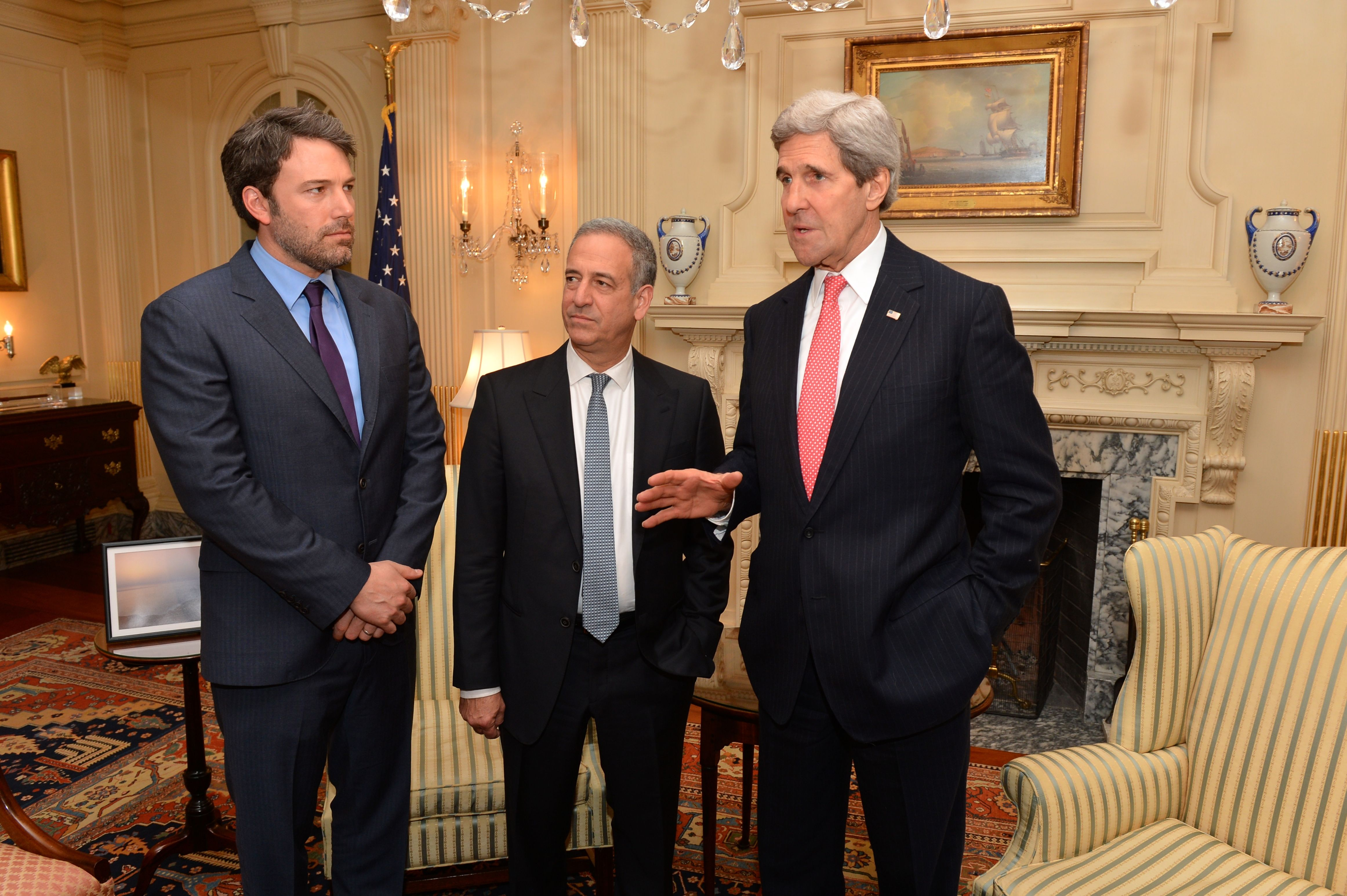 U.S. Secretary of State John Kerry and Special Envoy for the Great Lakes Region of Africa and the Democratic Republic of the Congo Russ Feingold meet with Ben Affleck, Founder of the Eastern Congo Initiative, at the U.S. Department of State in Washington, D.C., on February 26, 2014. [State Department photo/ Public Domain]